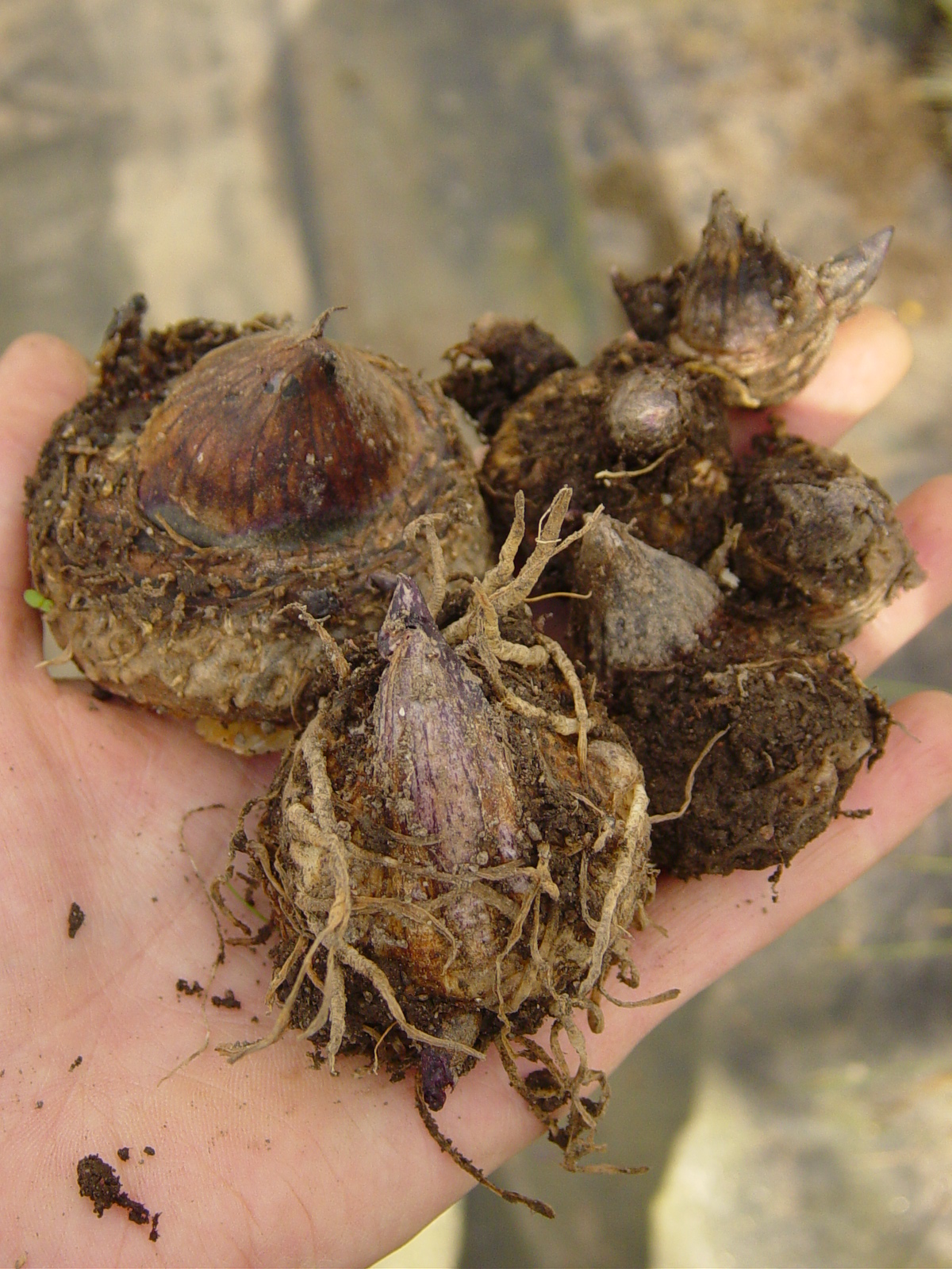 Bulbs of Arisaema triphyllum.